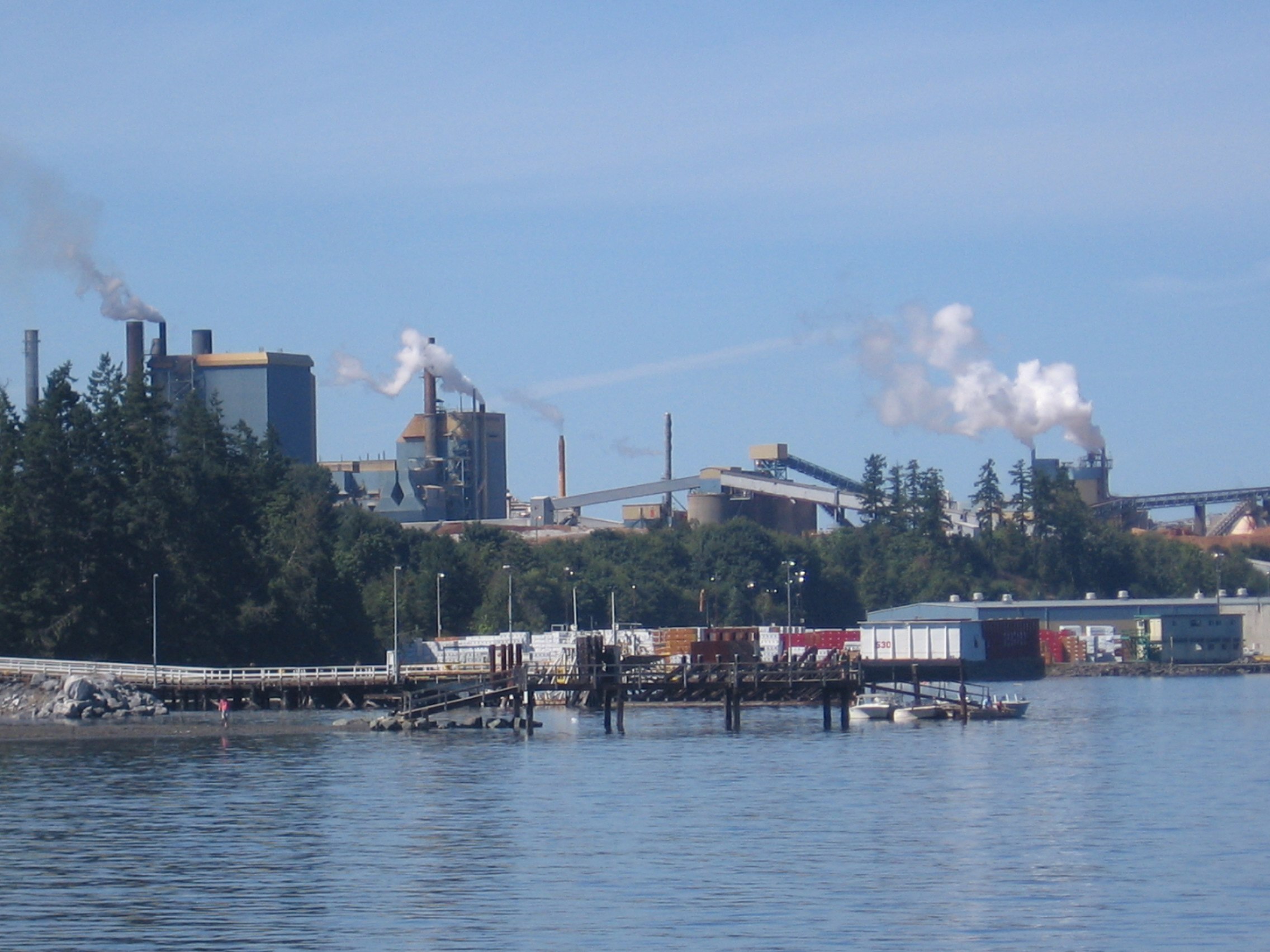 Crofton Pulp and Paper Mill as viewed from Crofton Beach